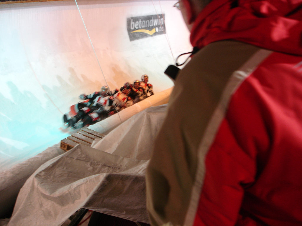 SEAT-Hackl-4er-Wok-Team im Zieleinlauf bei der Wok WM 2006 in Innsbruck (Georg Hackl's SEAT four-person-woksled team shortly before the goal in the Wok World Championship in Innsbruck 2006)